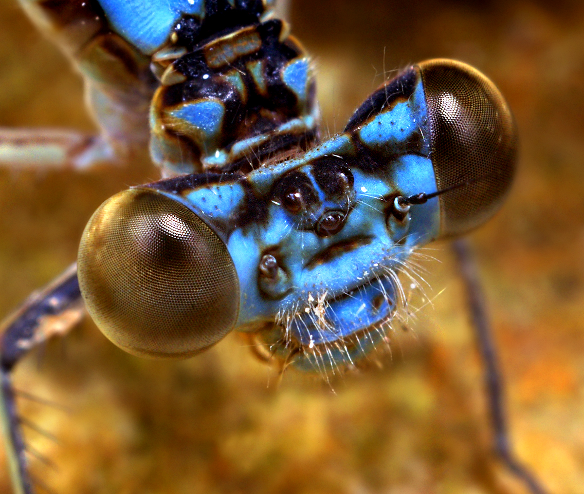 Head patterns of a Zygoptera damselfly in Arkansas